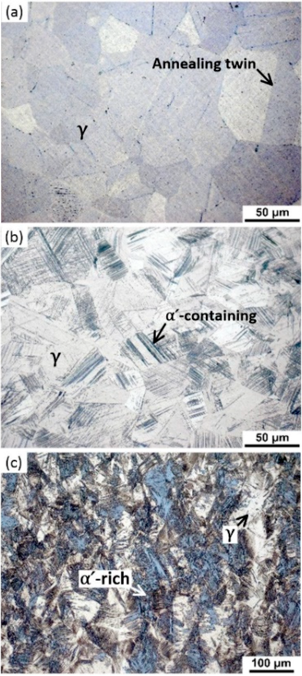 Microstructure of austenitic stainless steel 304L. (a) 304L un-prestrained; (b) 304L prestrained to 10% at 20 °C; (c,d) 304L prestrained to 30% at 20 °C. The structure of (a) is mostly composed of austenite (γ). Martensite (α′) exists in (b) and (c), as they are supposed to the pre-strain.